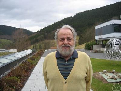 John B. Friedlander at Workshop: Analytic Number Theory in Oberwolfach, 2008